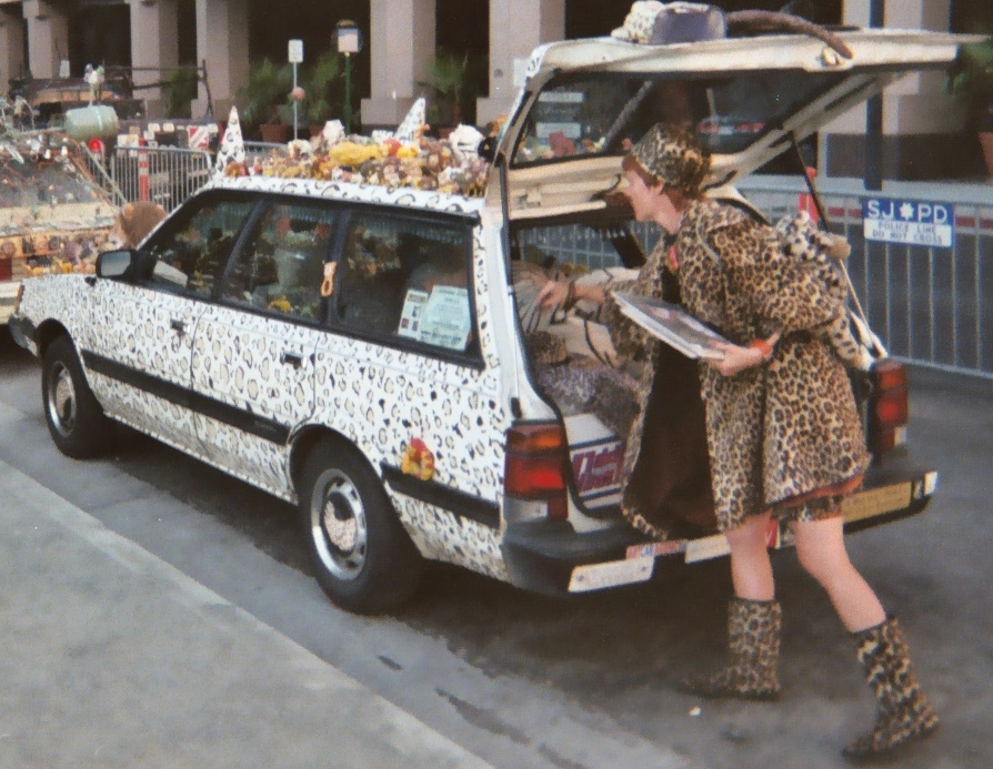 Photo shows Leopard Bernstein (license plate GRRRAFX), Subaru wagon/snow leopard art car, with artist Kelly Lyles loading extra feline sculptures in the back for an Art Car display at the San Jose Museum of Art. Leopard Bernstein is the lead cat in many west coast Art Car festivals and events, and has been seen at the Houston orange show and Peterson Automotive Museum show.